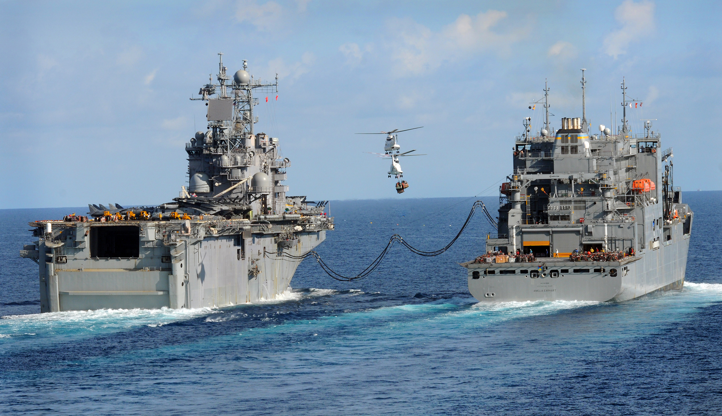 JAVA SEA (July 7, 2010) A pair of SA-330J Puma helicopters assigned to the USNS Amelia Earhart (T-AKE 6) (right) move supplies to the amphibious assault ship USS Peleliu (LHA 5) during a replenishment at sea. Peleliu, is part of Peleliu Amphibious Ready Group, led by Commodore Dale Fuller, which is on a scheduled Western Pacific deployment with 15th Marine Expeditionary Unit, led by Col. Roy Osborn. (U.S. Navy photo by Mass Communication Specialist 2nd Class Michael Russell)